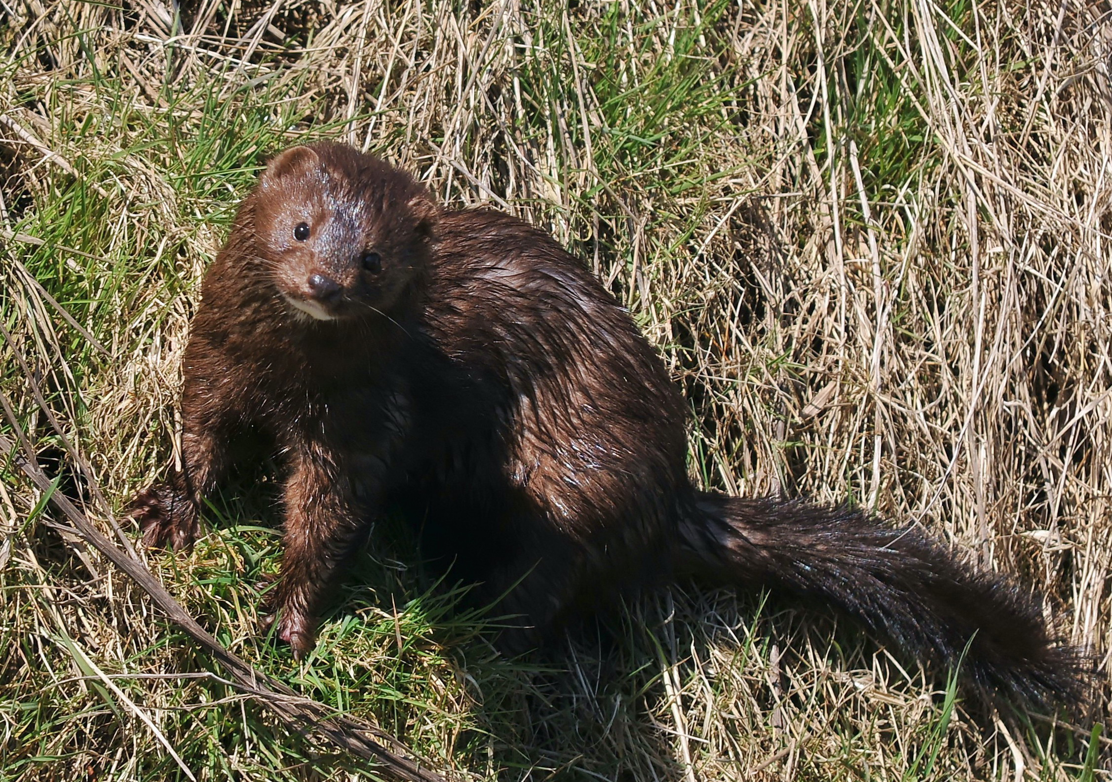 Best Viewed Large. Came across this little one quite by surprise, he even sat and posed for a few shots. This is the first time I've seen one in our local area.Delta BC